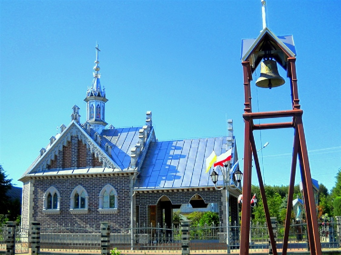 Brzezowka in Kolbuszowa from poland